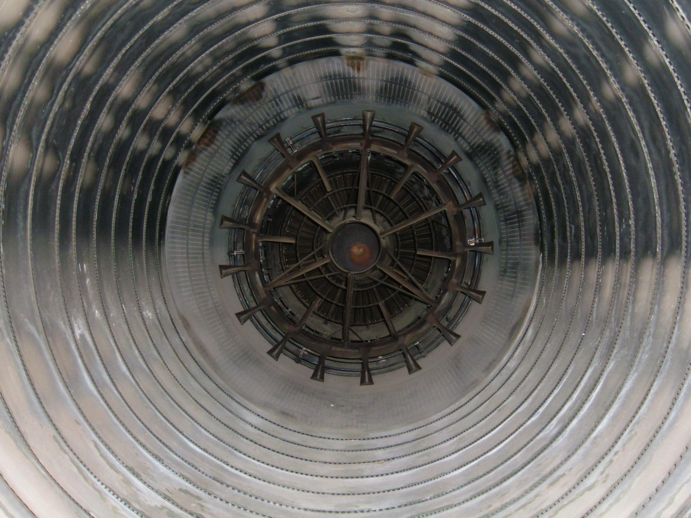 A close-up view through the exhaust nozzle of one of the Pratt & Whitney TF30 engines of an F-14A Tomcat, on display at the Pacific Coast Air Museum in Santa Rosa, California.